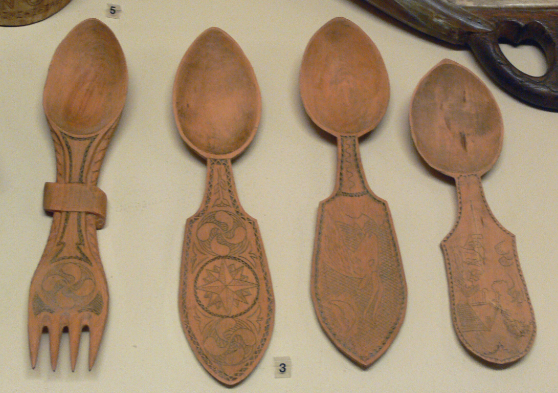 Spoons.